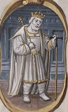 Bermudo II of Leon